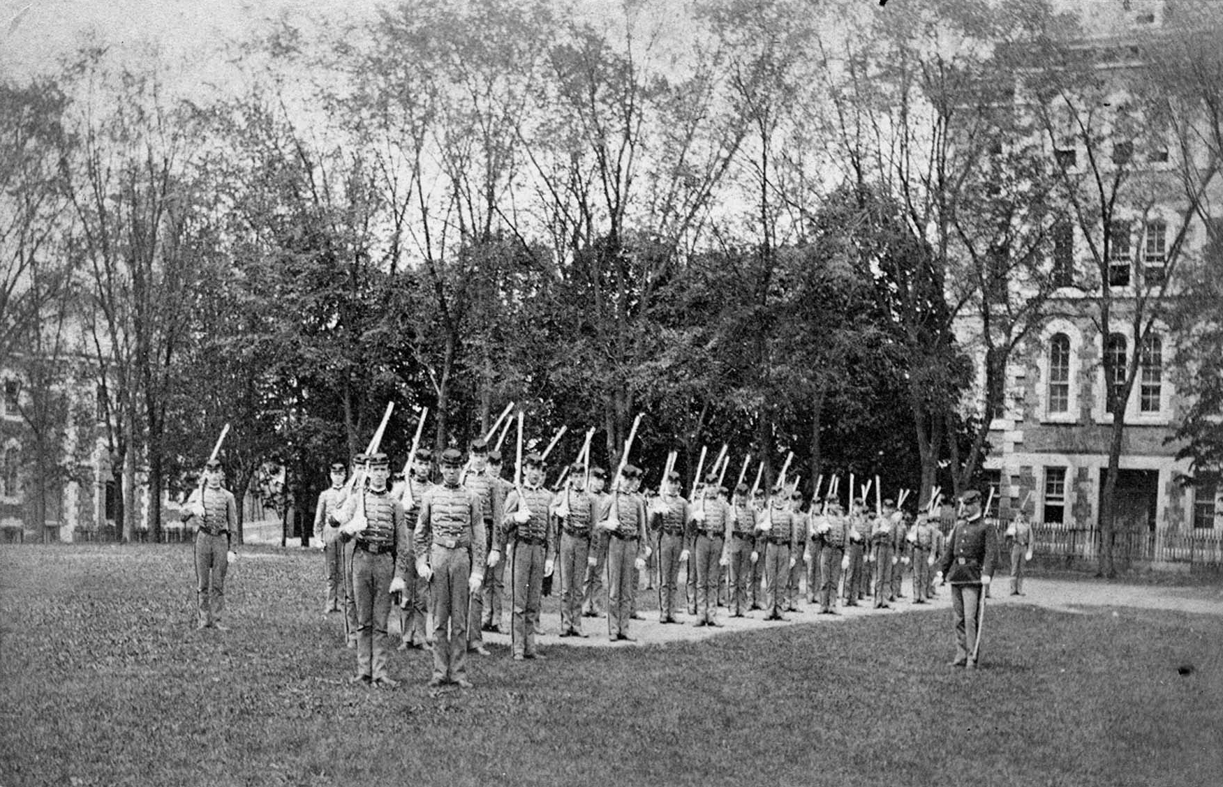 Cadets at Fordham University, 1886